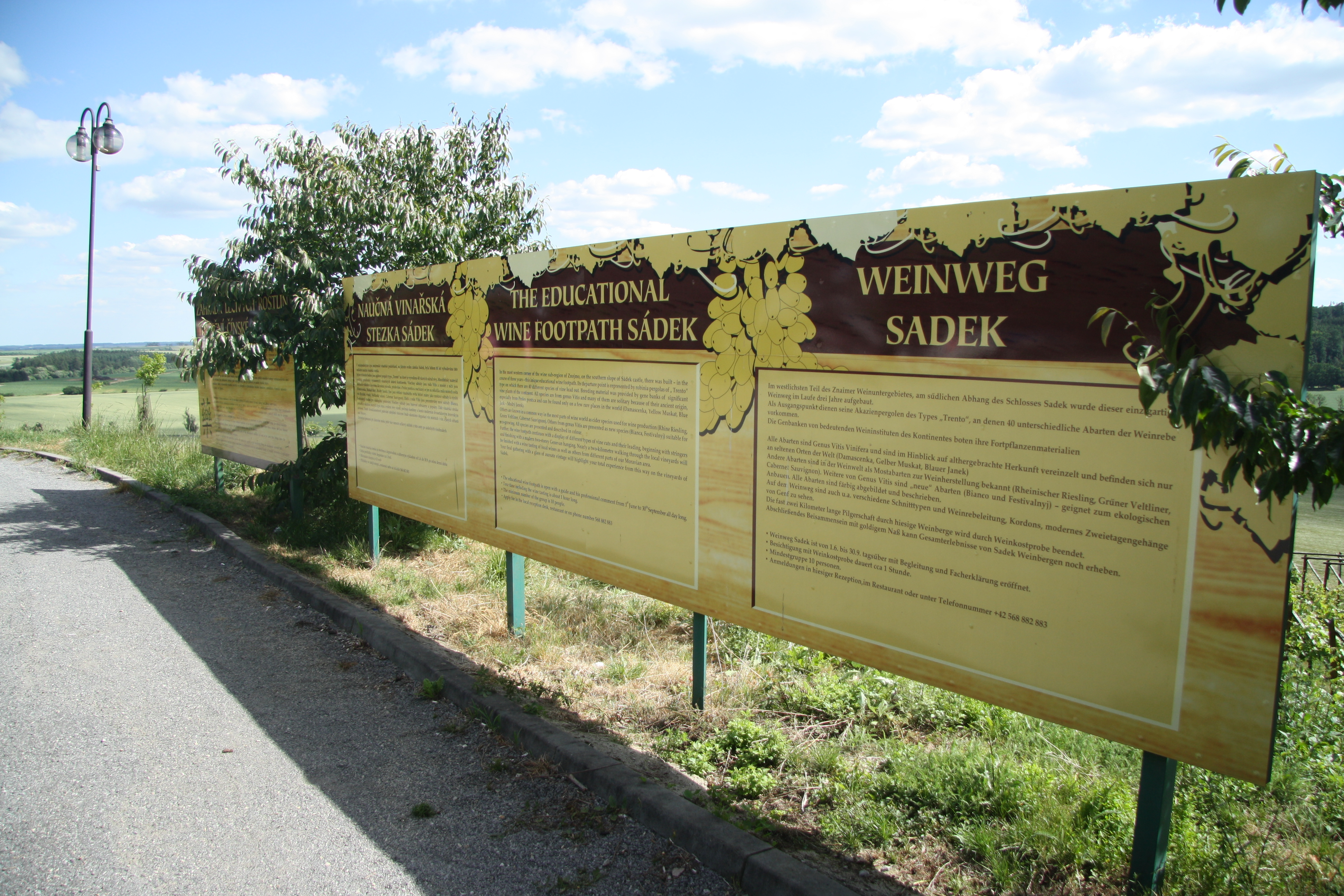 Infopanel of Vinařská naučná stezka Sádek in Kojetice, Třebíč District.